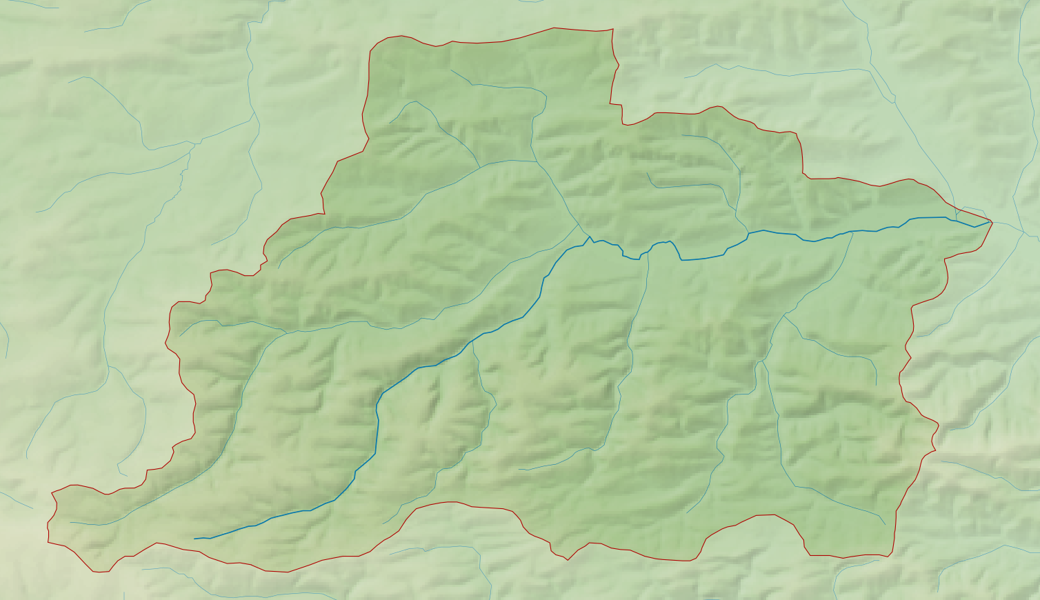 Map of the River Yeo and its catchment in Devon, UK.